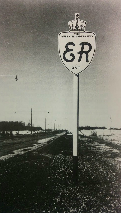 View of original blue and orange sign used to trailblaze the QEW, February 1940